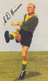 A Northcote FC player from the 1940's